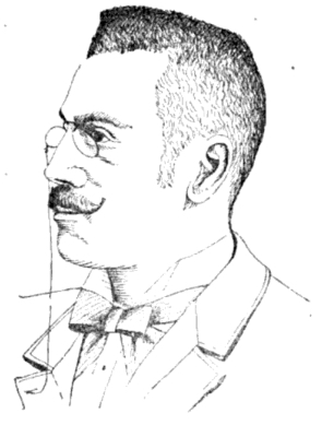 Portrait of American poet and school administrator James Edwin Campbell in 1893: Morgan, Benjamin S. , ed. (1893) Biennial Report of the State Superintendent of Free Schools of the State of West Virginia for the Years 1891 and 1892, Charleston, West Virginia: Moses W. Donnally, Public Printer OCLC: 3755995.